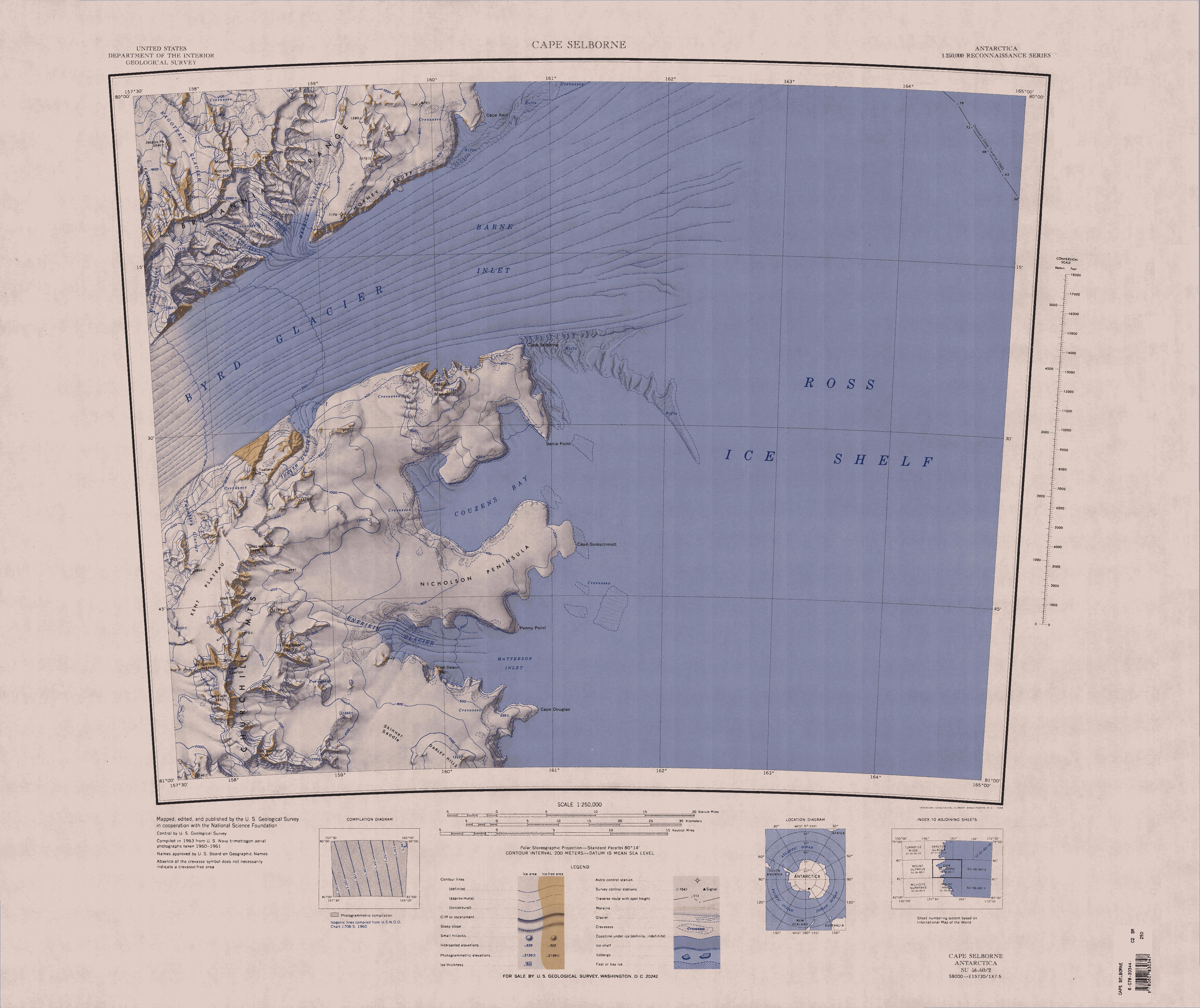 Map of Antarctica by the United States Antarctic Resource Center of the US Geological Society.